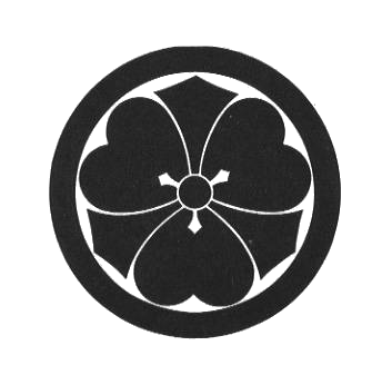 Sakai family crest